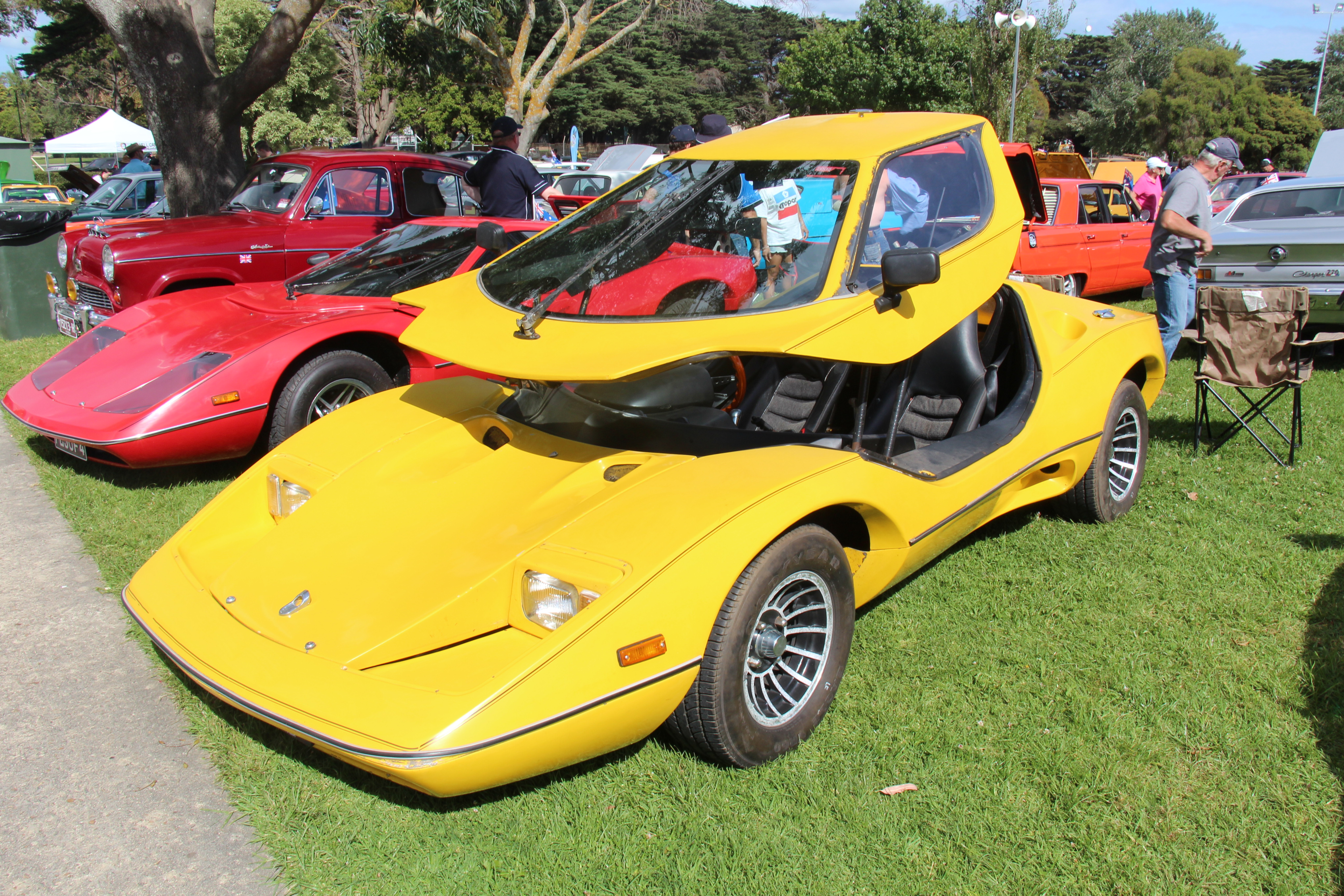 The Purvis Eureka is a sports car which was produced by Purvis Cars at Dandenong in Victoria, from 1974 to 1991. It was offered both as a kit car and as a fully assembled vehicle. It utilised a Volkswagen Beetle chassis and a fibreglass body. The coupe body had no doors, access being via a manually operated one piece canopy . A total of 683 were made. 3 versions were made; the Purvis Eureka Sports, from 1974-75 the Purvis Eureka PL30, from 1975-76 and the Purvis Eureka F4, from 1976-91 Engines; Volkswagen 1.6 or 2.0 flat four, Ford 1.6 or 2.0 4 cyl or a Mazda Rotary